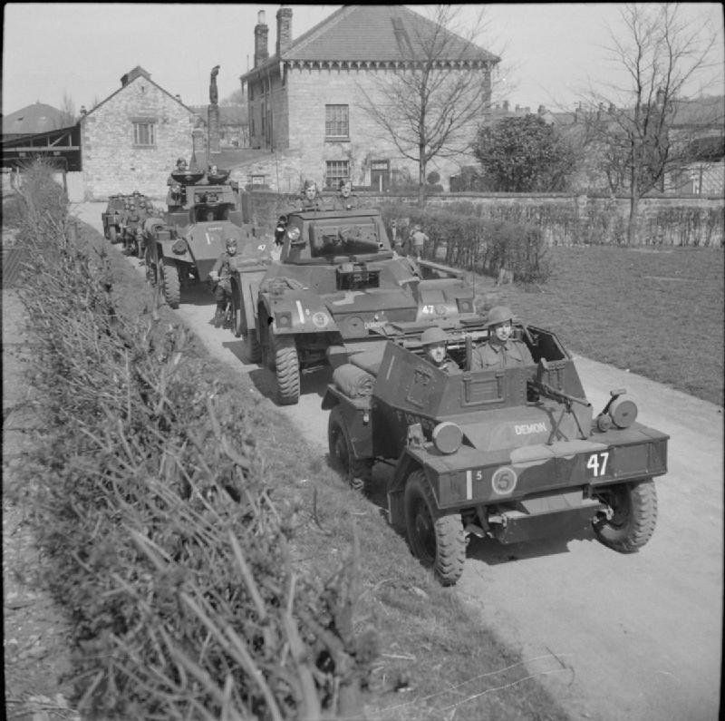 The British Army in the United Kingdom 1939-45 Armoured cars of the 27th Lancers, 11th Armoured Division, 19 April 1942. A scout car leads, followed by Daimler and Humber armoured cars, with more scout cars bringing up the rear.